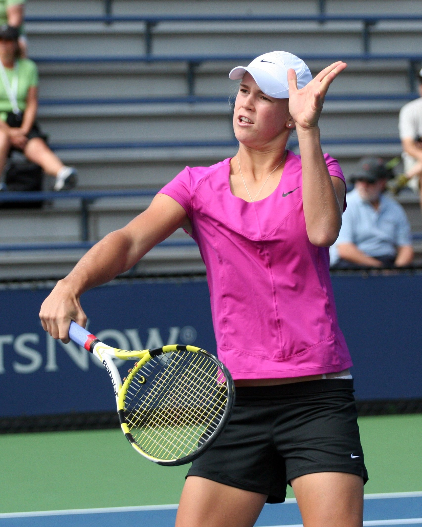 U.S. Open Friday, Sept. 4, 2009